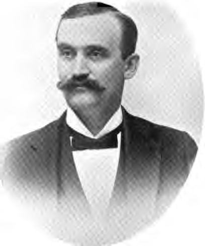 John Hicklin Hall